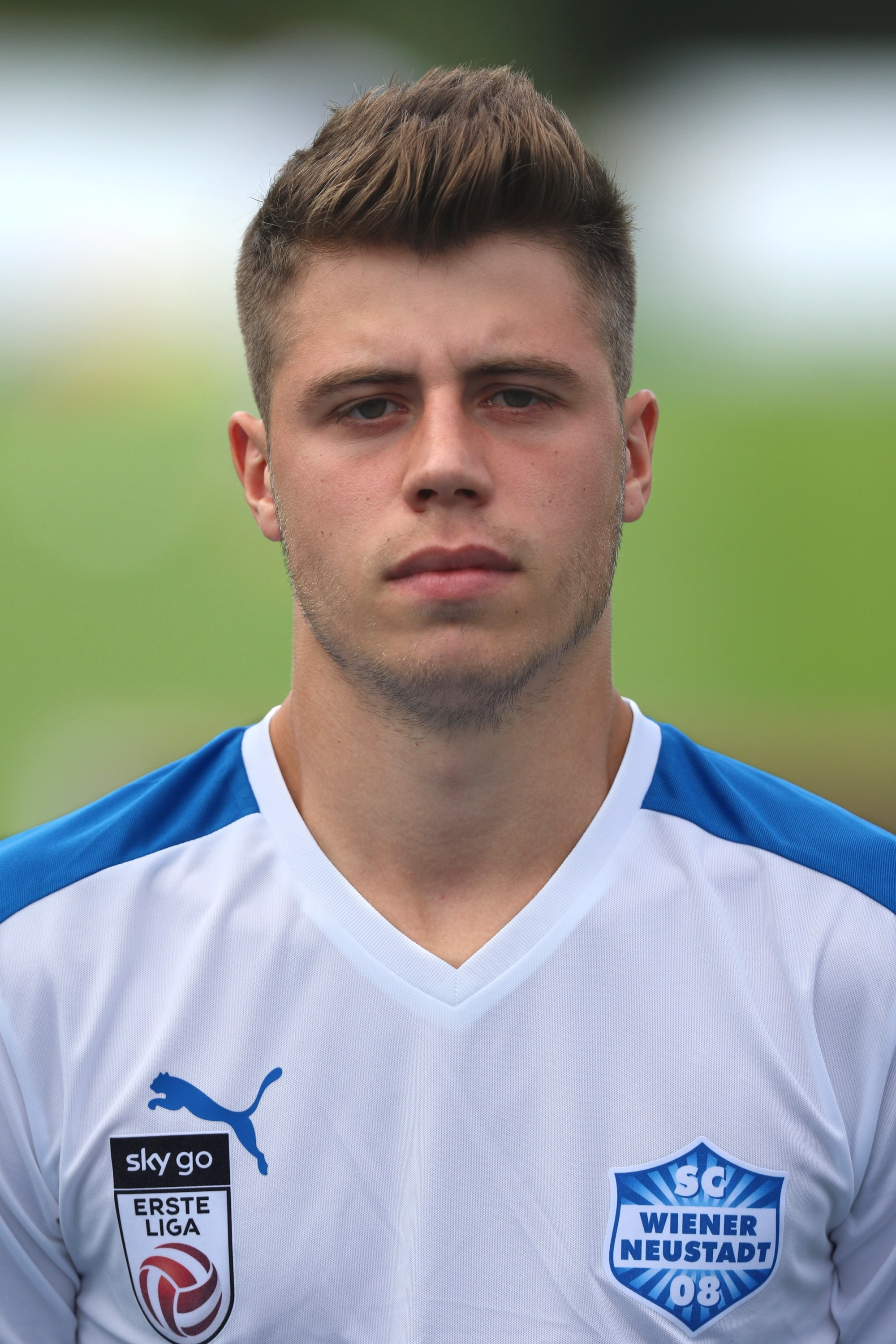 SC Wiener Neustadt squad presentation summer 2017. – The photo shows Mario Stefel.